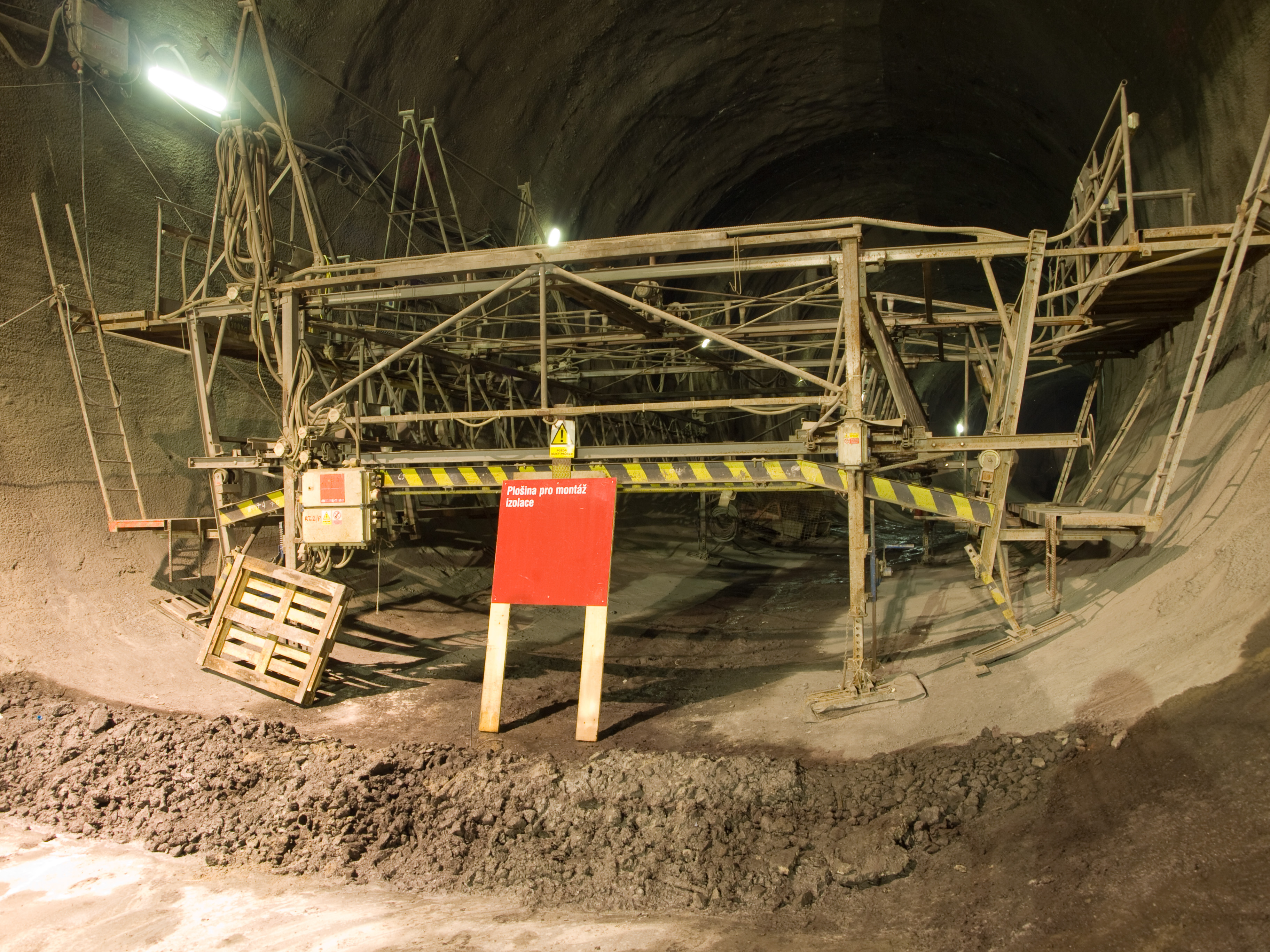 Špejchar – Troja segment, Open doors days in Blanka tunnel in september 2010, Prague